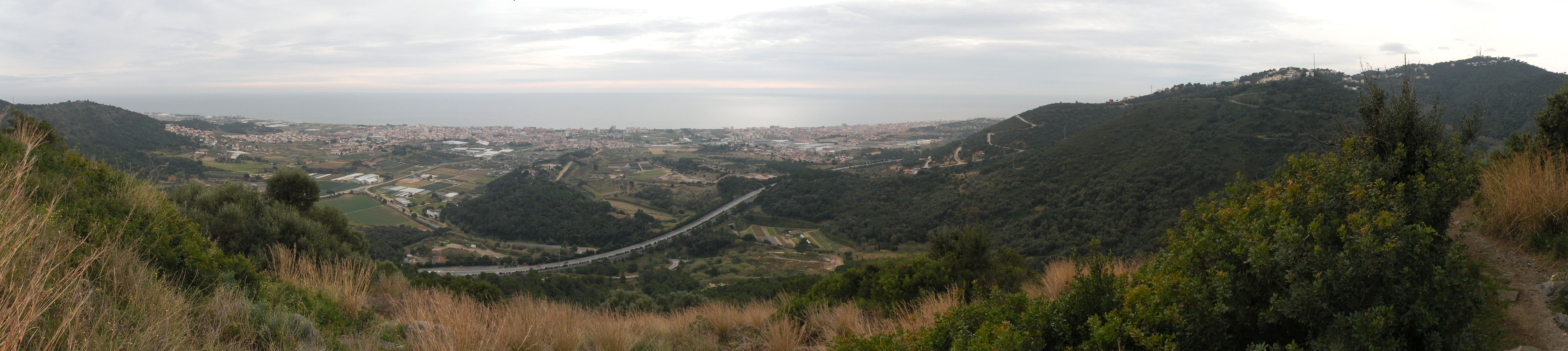 Landscape from castle of Montpalau